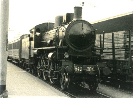 Italian steam locomotive 640 004 location: Rimini train station year: 1975